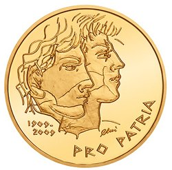 Swiss Commemorative Coin 2009 CHF 50 obverse